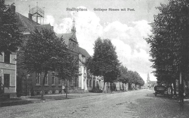 Nesterov (Stallupönen), Goldap Street